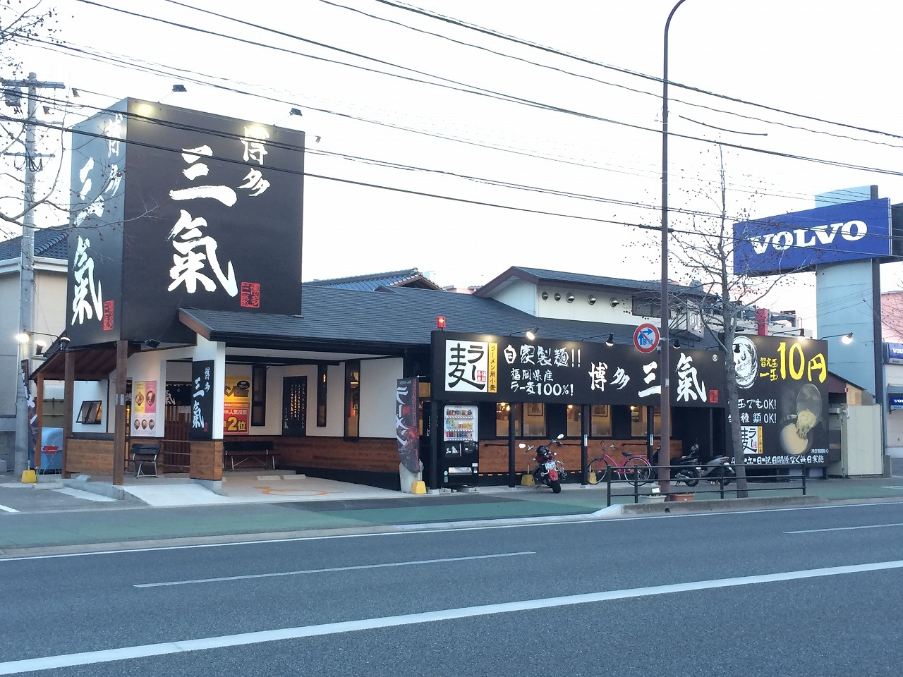 Hakata Sanki It is the appearance of the Meinohama main street Fukushige store. It is the Hakata boiled-pork-ribs ramen-noodles specialty store.